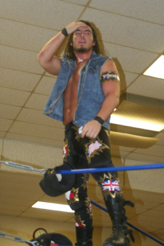 Professional wrestler Johnny Gargano at a Chikara event